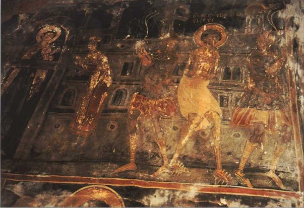 Saint George of Mouzevikis Church, Saint George Martyrdom fresco, Kastoria, 1657 - 1663